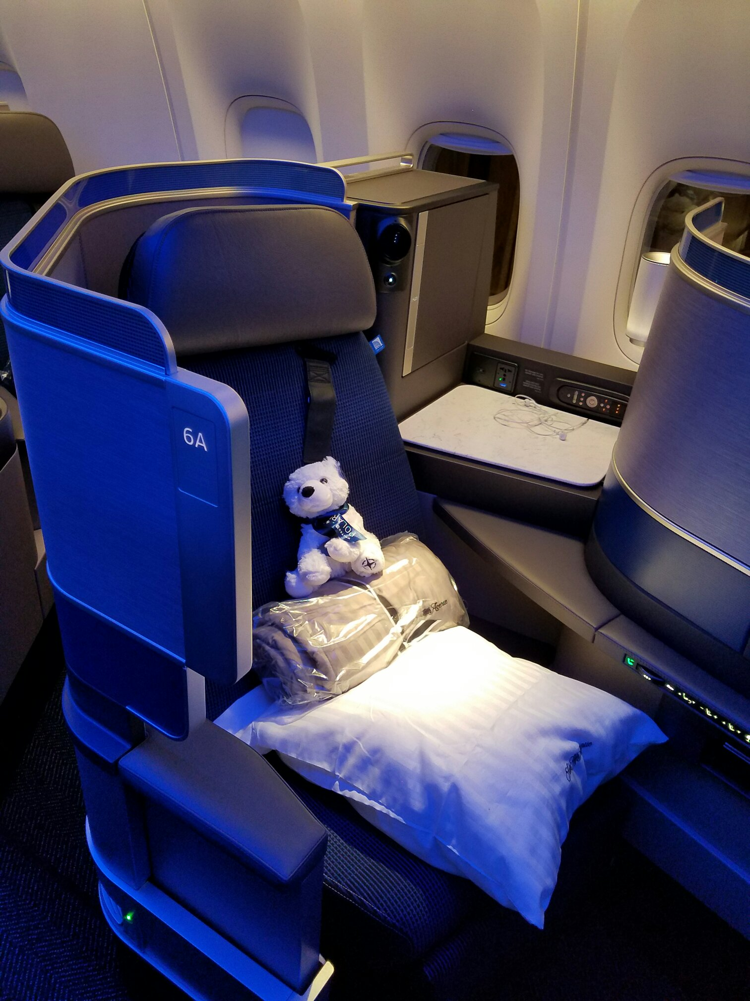 The new United Polaris business class seat shown on board the 777-300ER